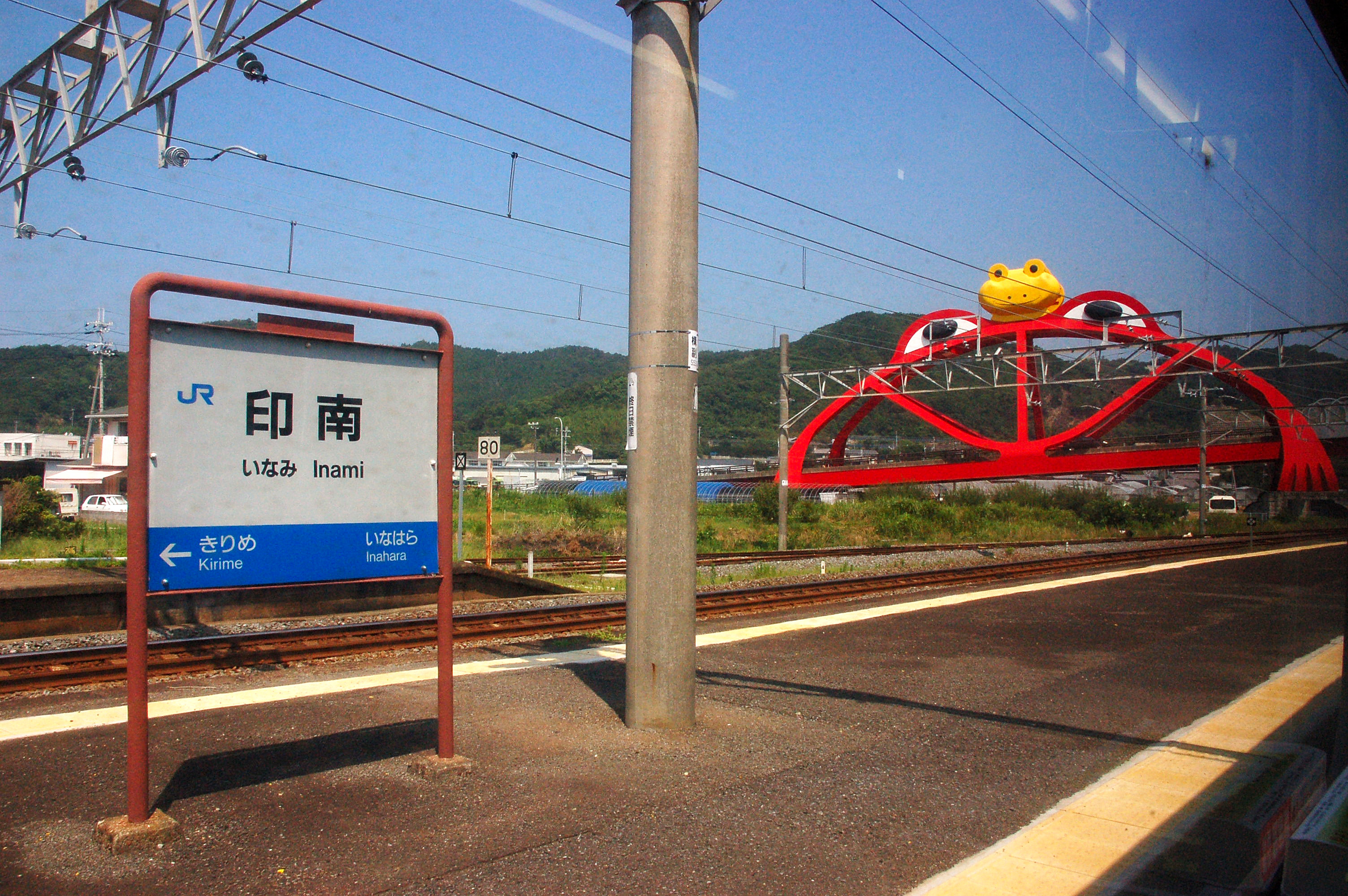 Inami Frog Bridge in Inami, Wakayama pref Japan